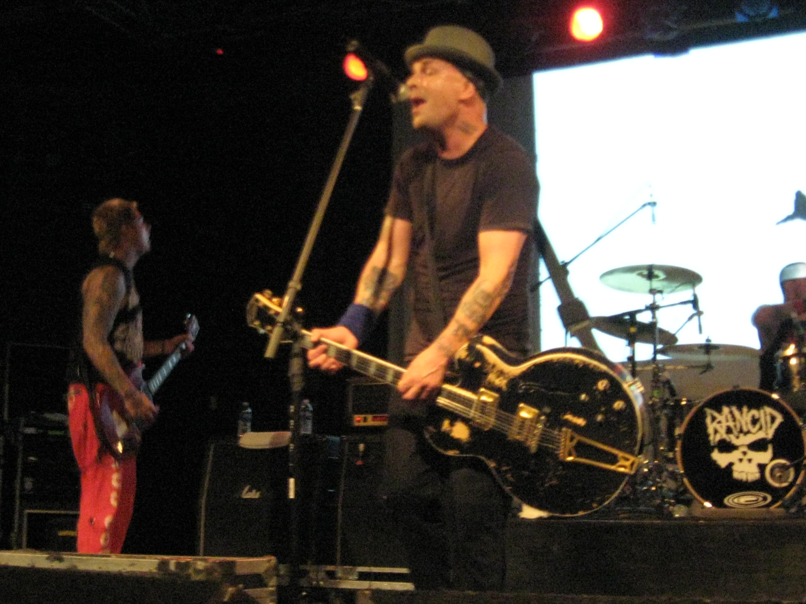 Tim in Nashville, TN on 6/27/08.